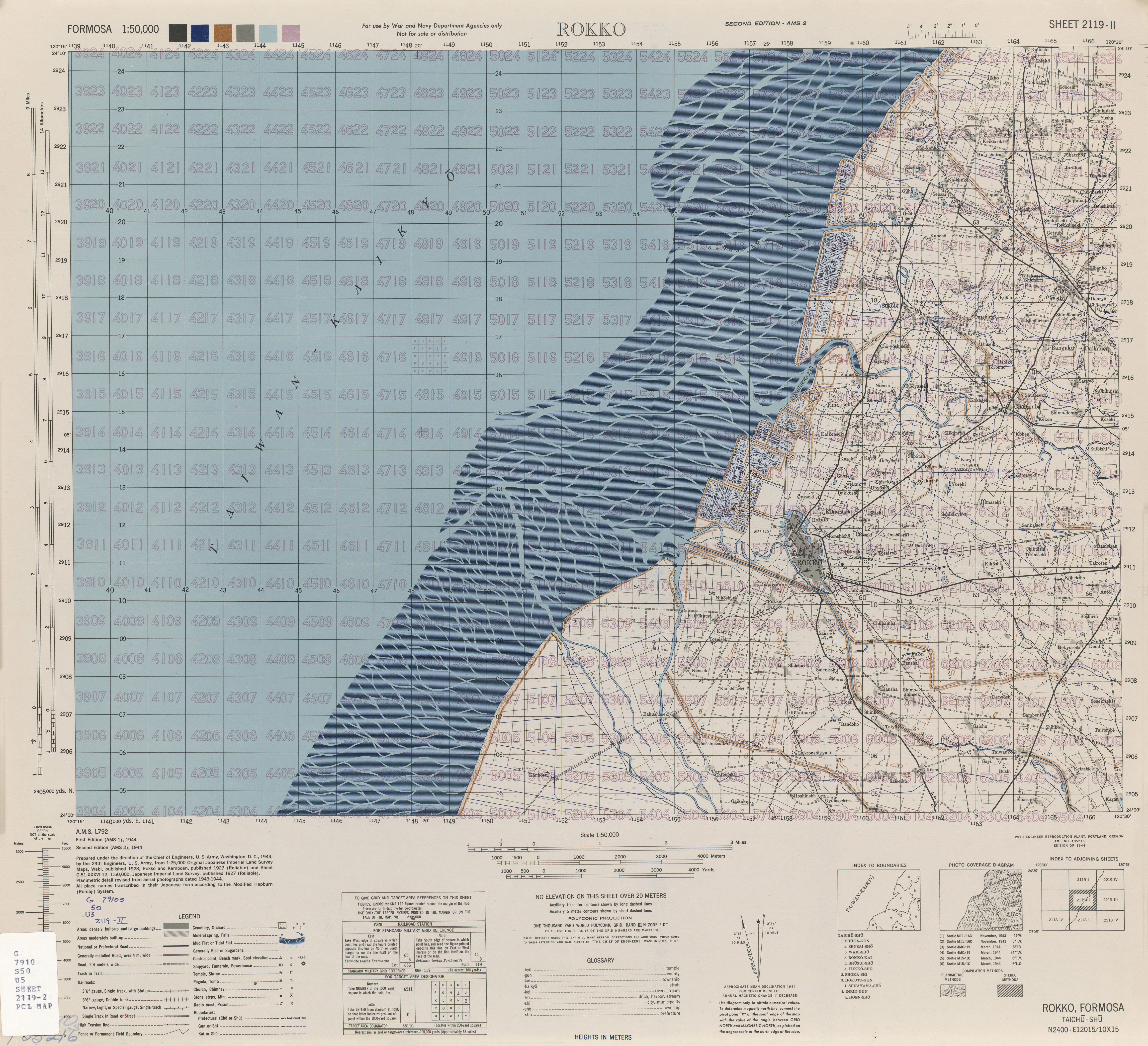 Map from Formosa (Taiwan) 1:50,000 AMS Series L792